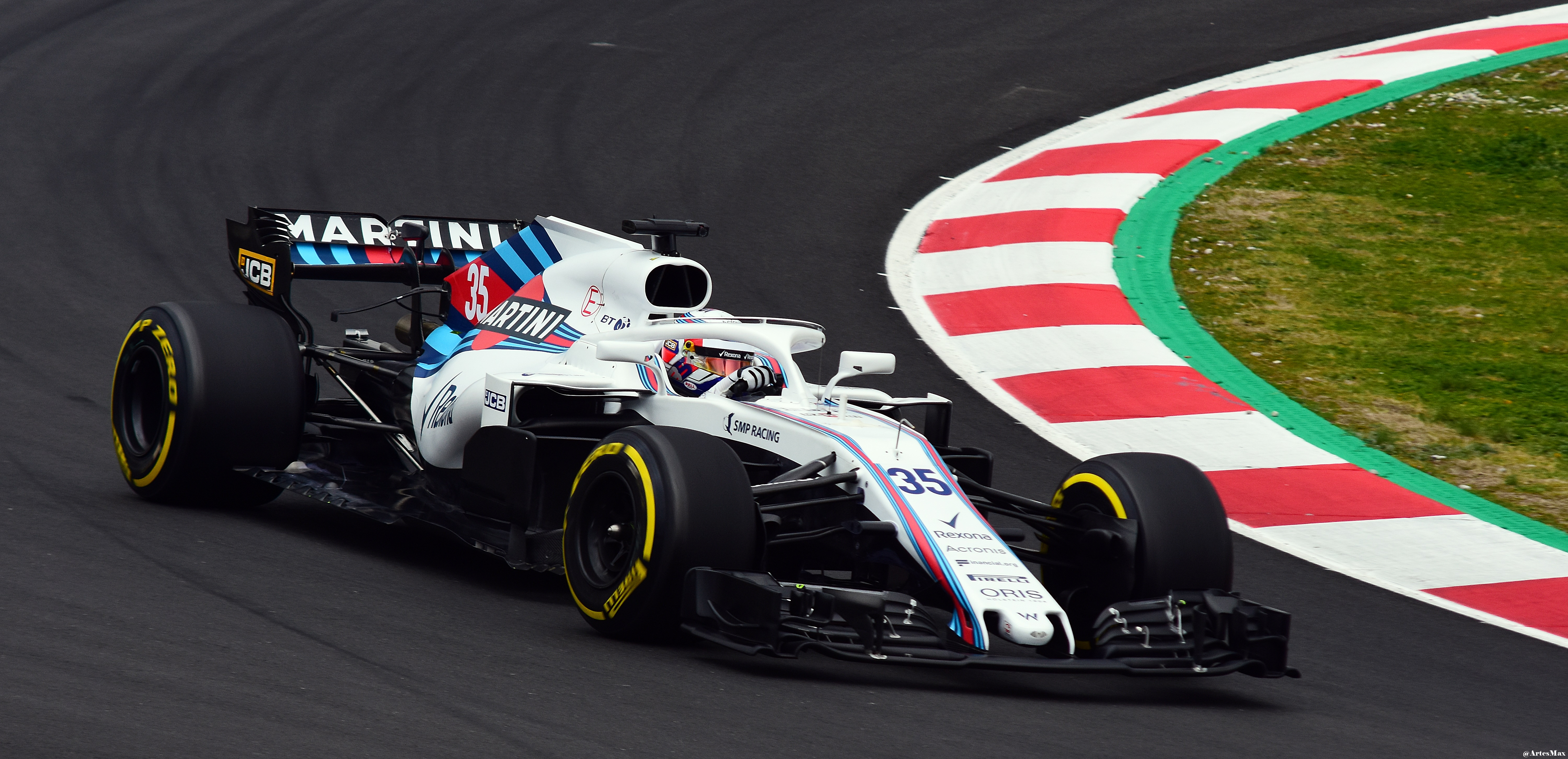 Sergey Sirotkin testing the Williams FW41 during pre-season testing in Barcelona.